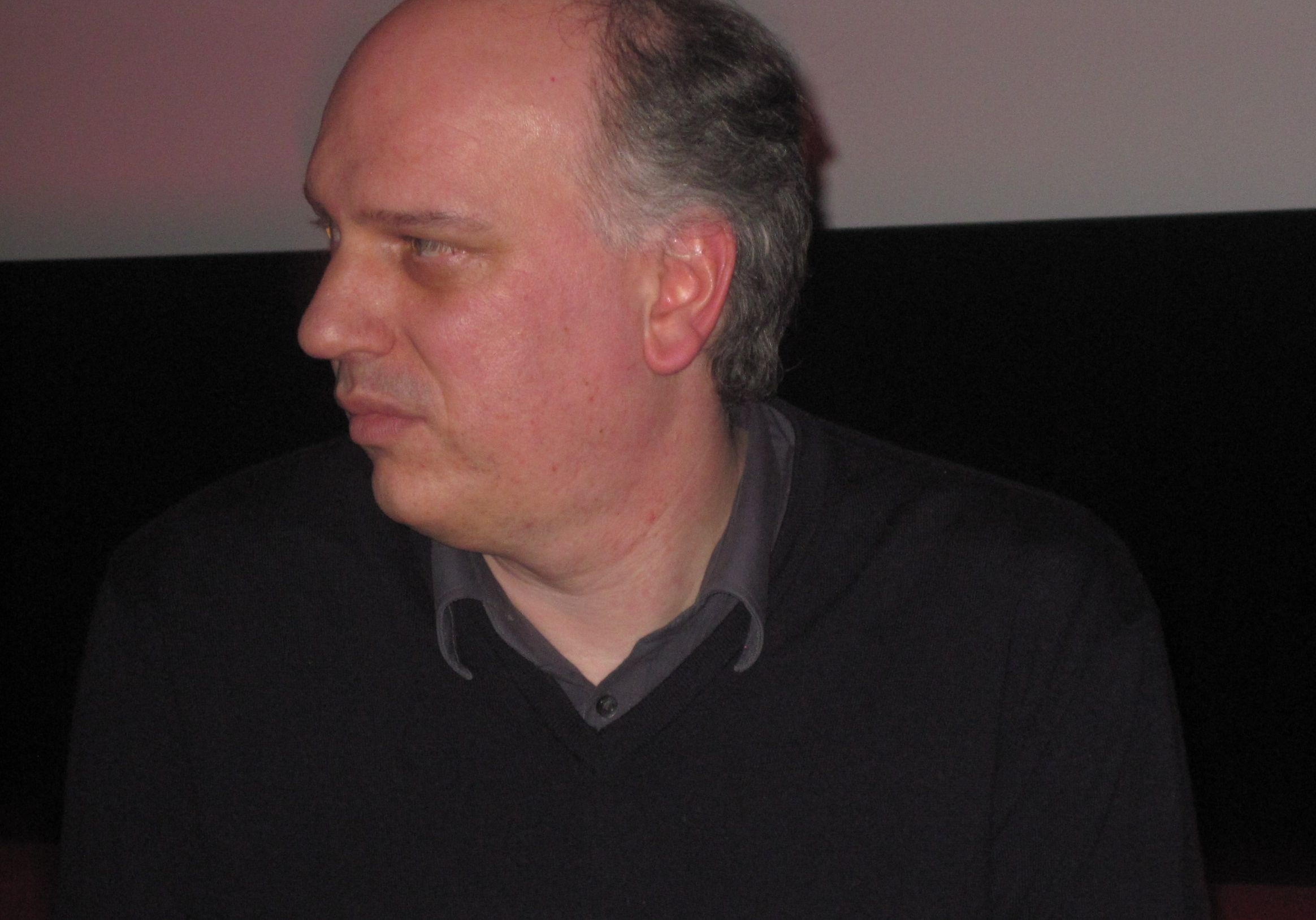 german film critic Ekkehard Knörer